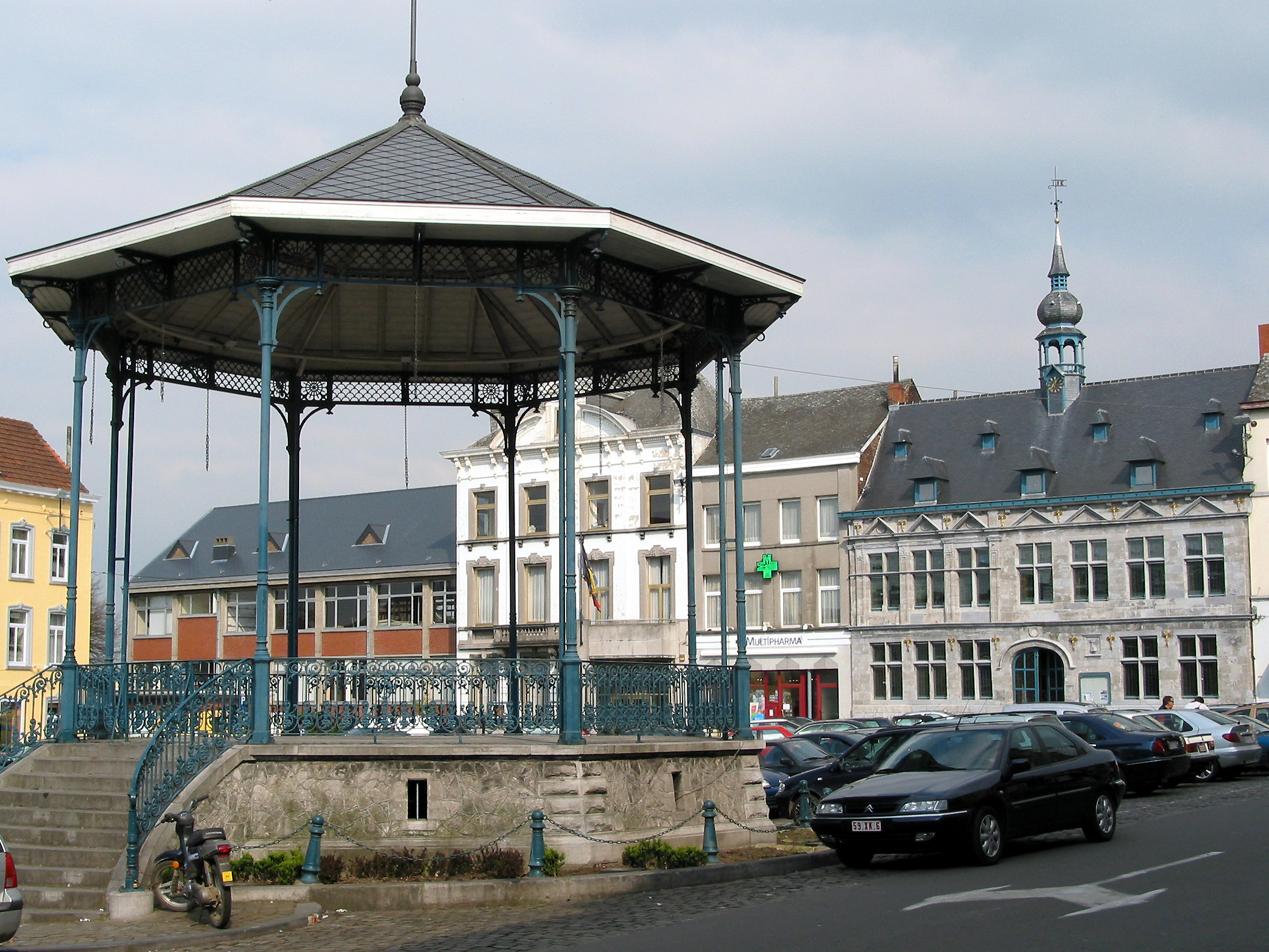 Braine-le-Comte (Belgium), the bandstand and the town hall.